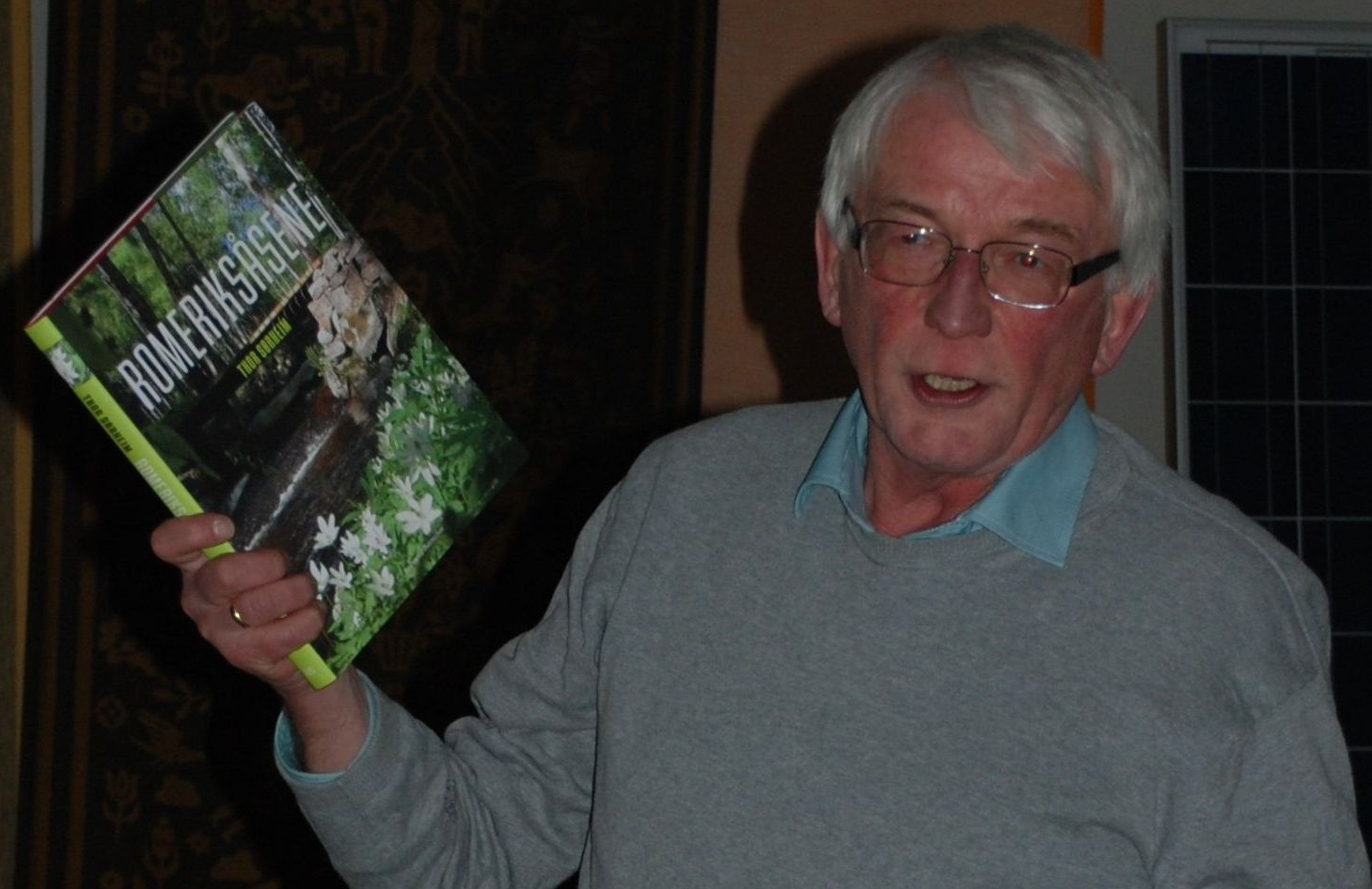 Thor Sørheim, author and poet